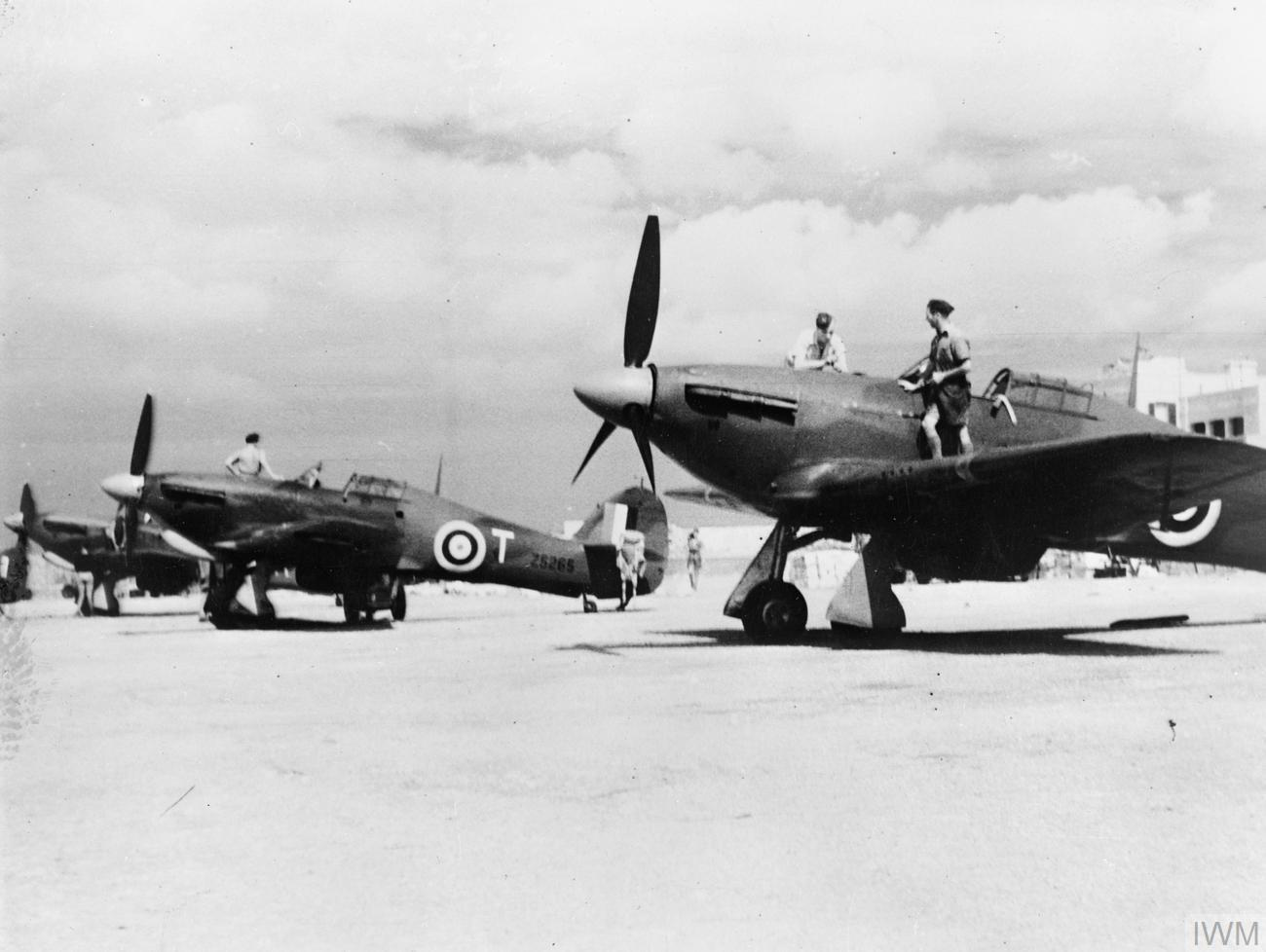 Hawker Hurricane Mark IIs of No. 185 Squadron RAF, lined up at readiness at Hal Far, Malta. Hurricane Mark IIB, Z5265 'T' (centre) was the aircraft flown by the Commanding Officer, Squadron Leader P.W.O. Mould, when he was shot down and killed after the Squadron had scrambled to intercept Italian fighters north-east of the Island on 1 October 1941.